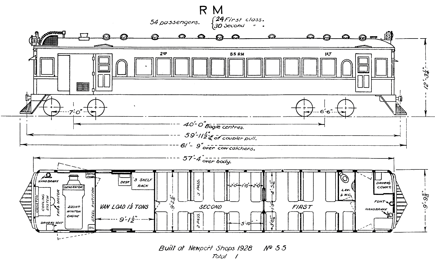 Diagram of Victorin Railways Railmotors 55-64